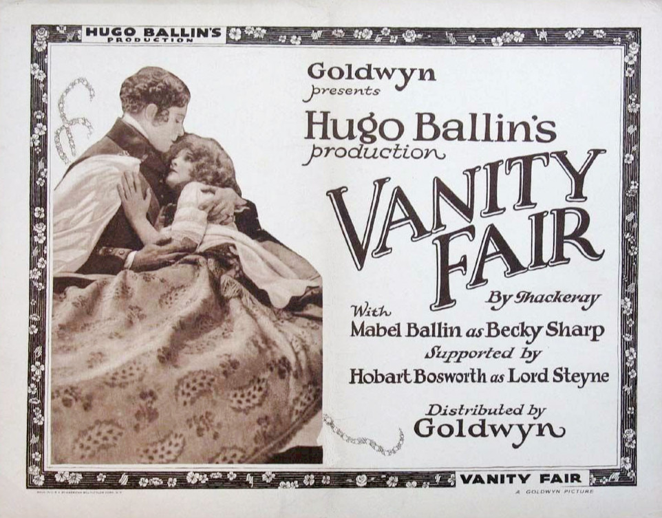 Lobby card for the American drama film Vanity Fair (1923).